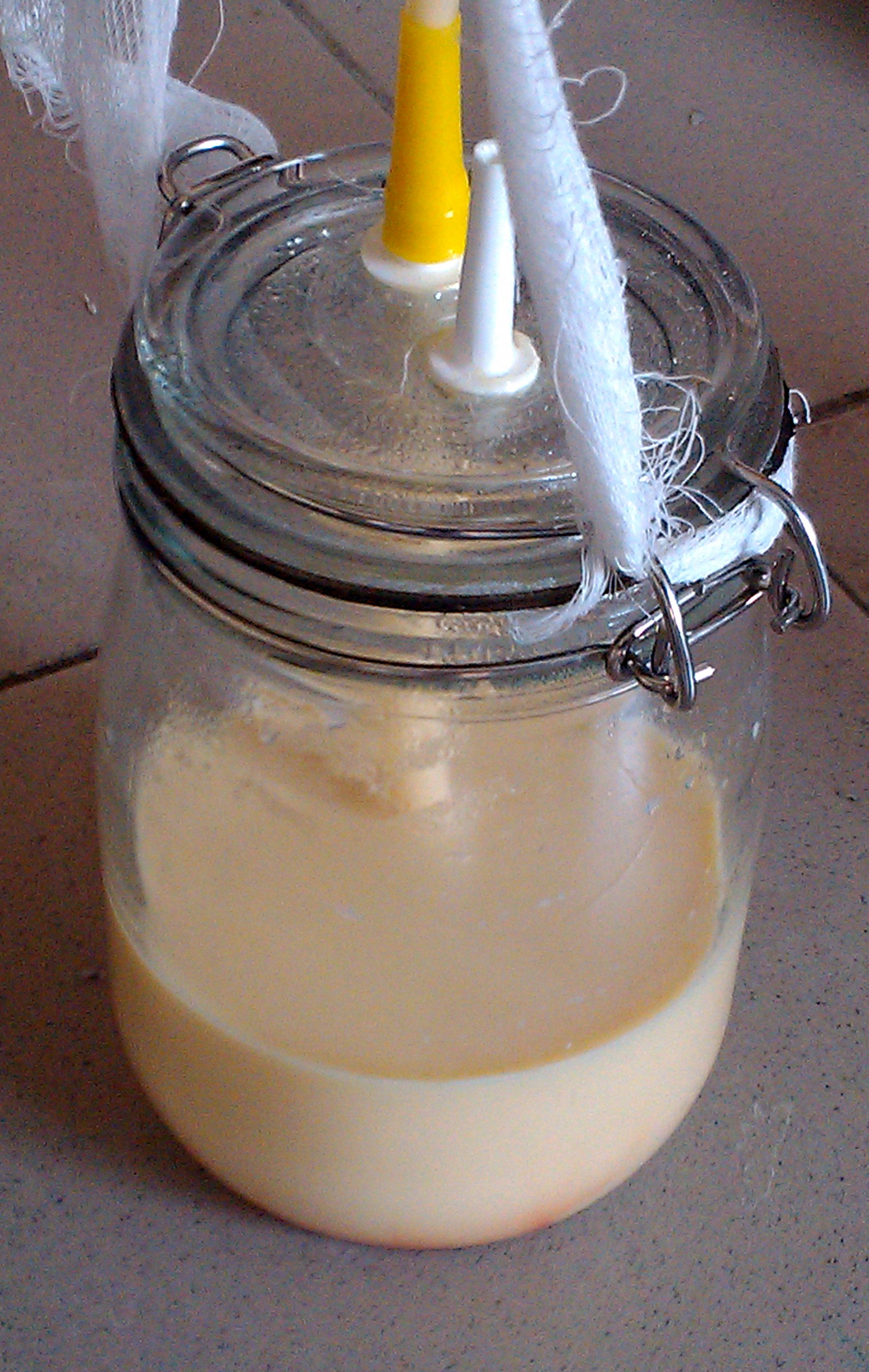 Chyle evacuated from the pleural cavity of a patient with chylothorax into a jar